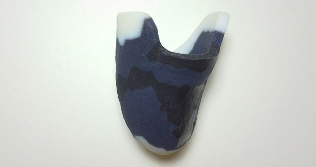 Material Jetting - Multi Material Prosthetic Socket [1]